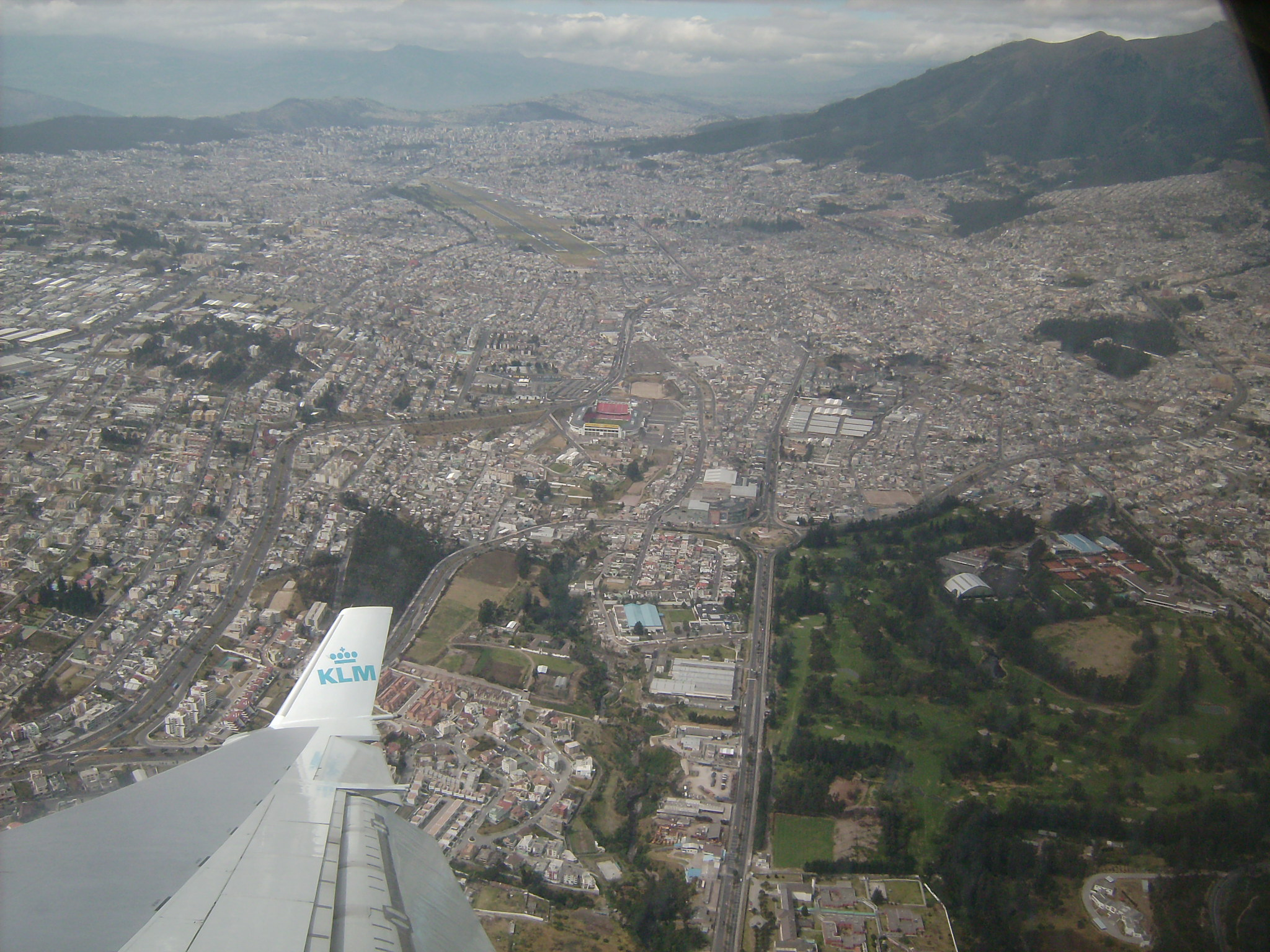 Quito, Ecuador